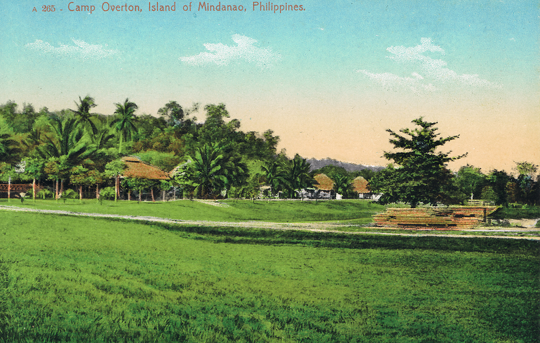 Camp Overton, American Armybase 1900, currently the location of Global Steel Philippines Inc.